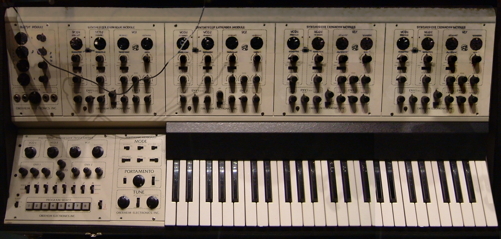 Oberheim 4voice '"Used by 808 State, Depeche Mode, Styx, The Shamen and John Carpenter. Produced from '75 to '79. Killed by the Prophet-5." Thanks to for the model name! GeoTagged